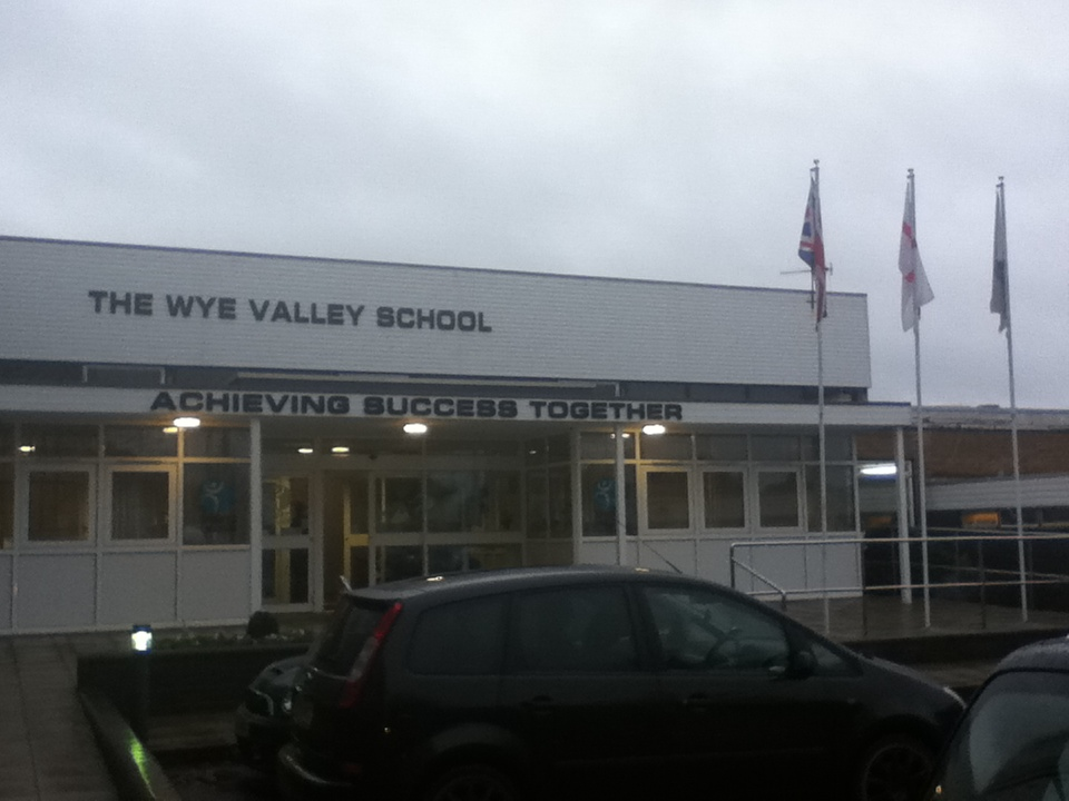 Picture of the front of The Wye Valley School